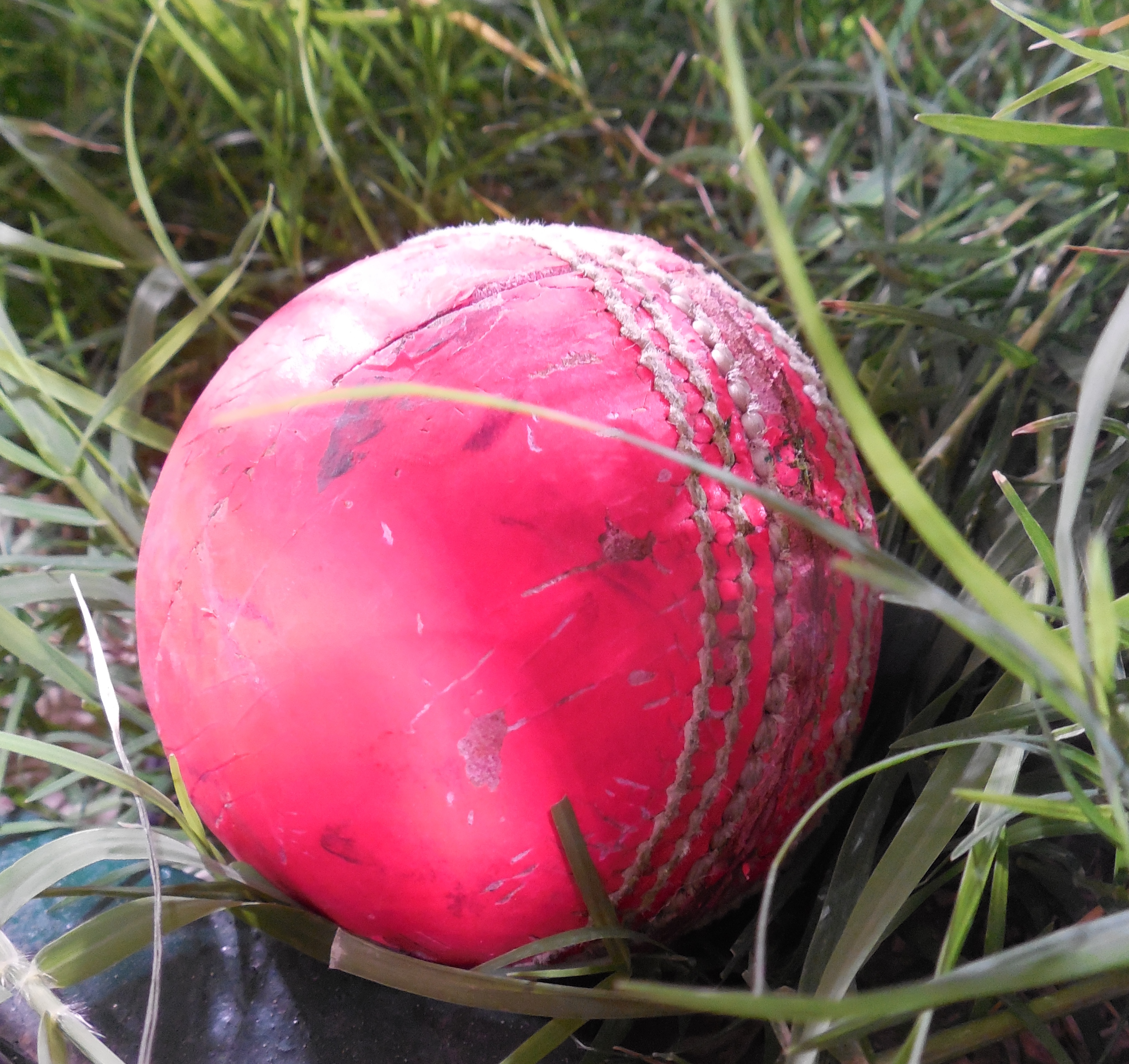 A used pink ball at the 2014 English county season launch in UAE.